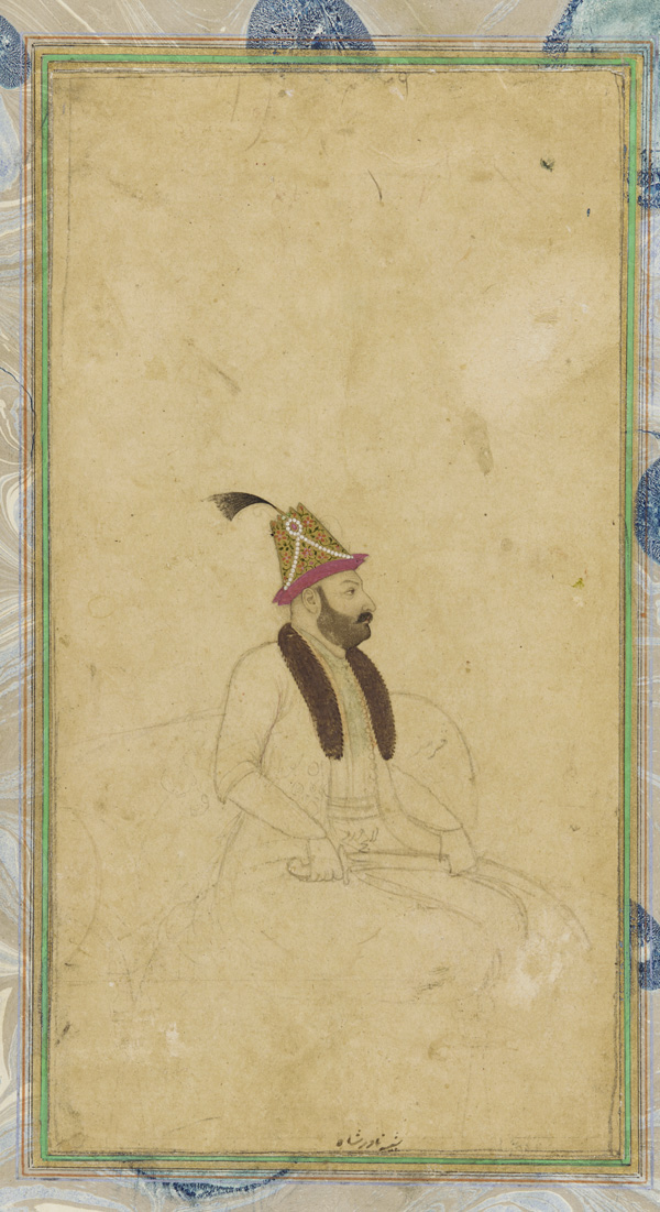 A portrait of Nadir Shah from the following link